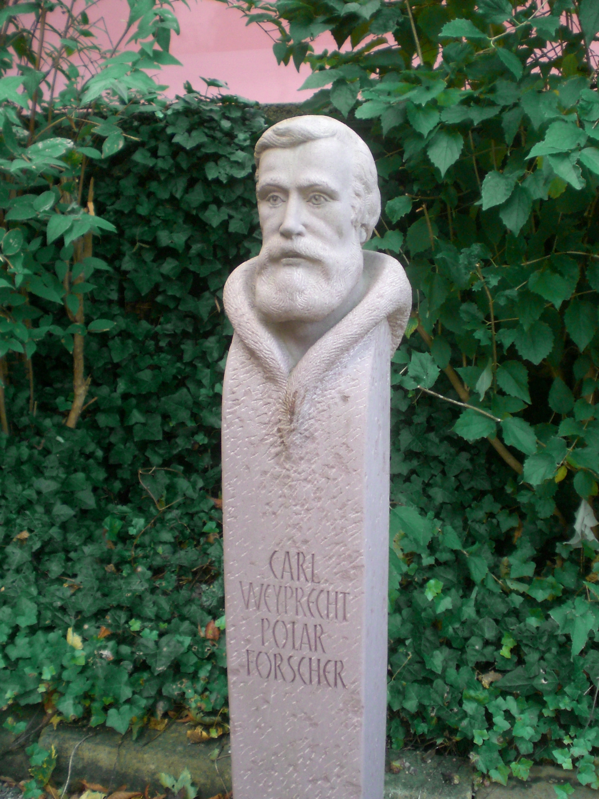 Memorial of Carl Weyprecht, polar explorer, in Bad König, Germany